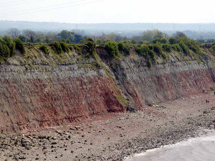 Cliffs on the banks of the River Severn, at Aust, Bristol, England. Fossil collectors visit this site to collect from the shore, following rock falls or storms. Scale can be gauged from the two or three indistinct people on the shore, exactly halfway up the picture on the far right. Photographed by Adrian Pingstone in April 2002 and released to the public domain.